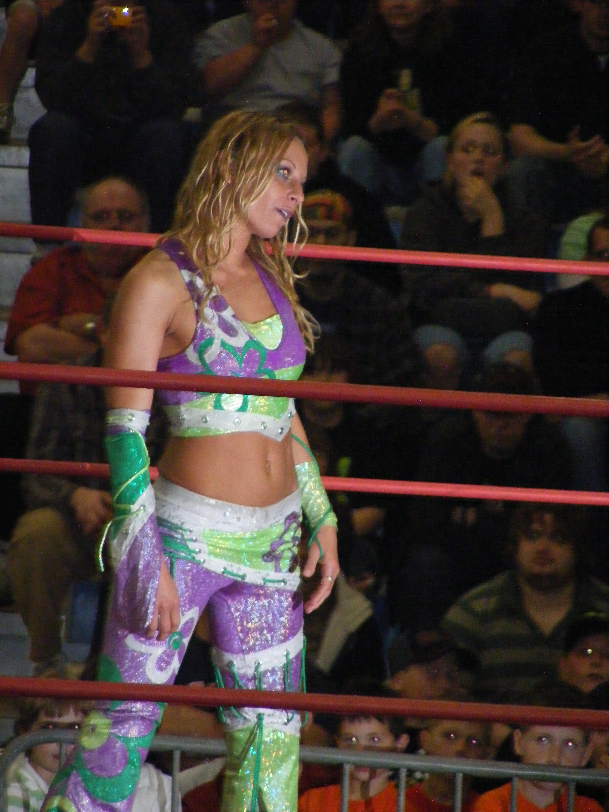 Daizee Haze at an All Pro Wrestling event in May 2008.